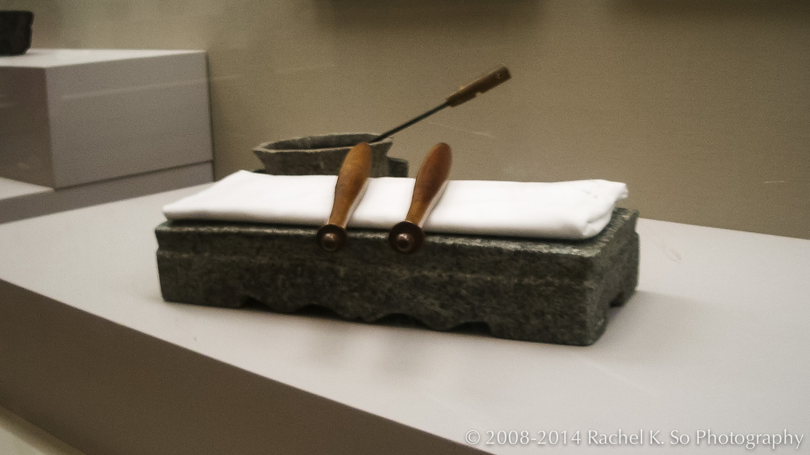 Tools of Daeumi. Dadeumitbangmang-i and Dadeumitdol.